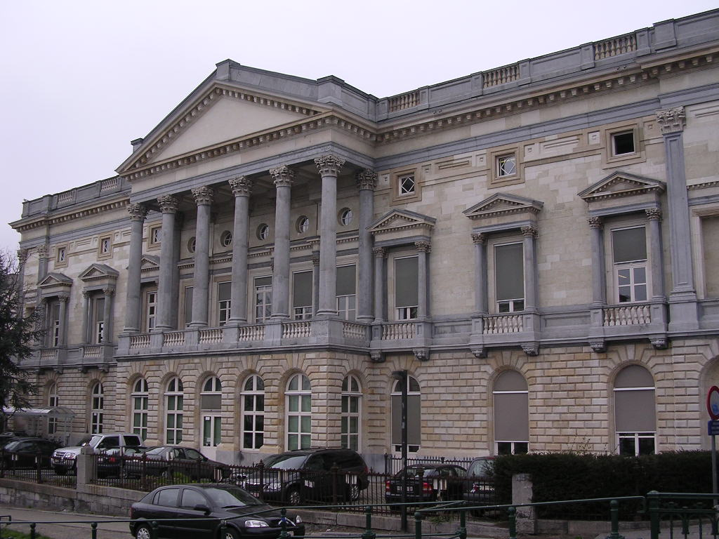 The Gent, Belgium Palace of Justice was designed by Louis Roelandt (1786-1864)